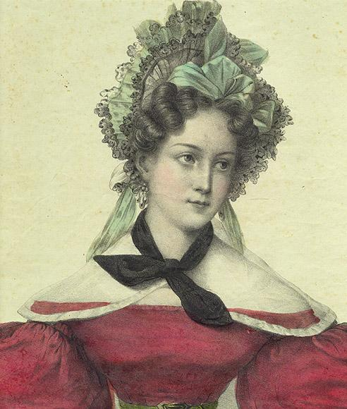 Virginia La Fayette, daughter of marquis Lafayette